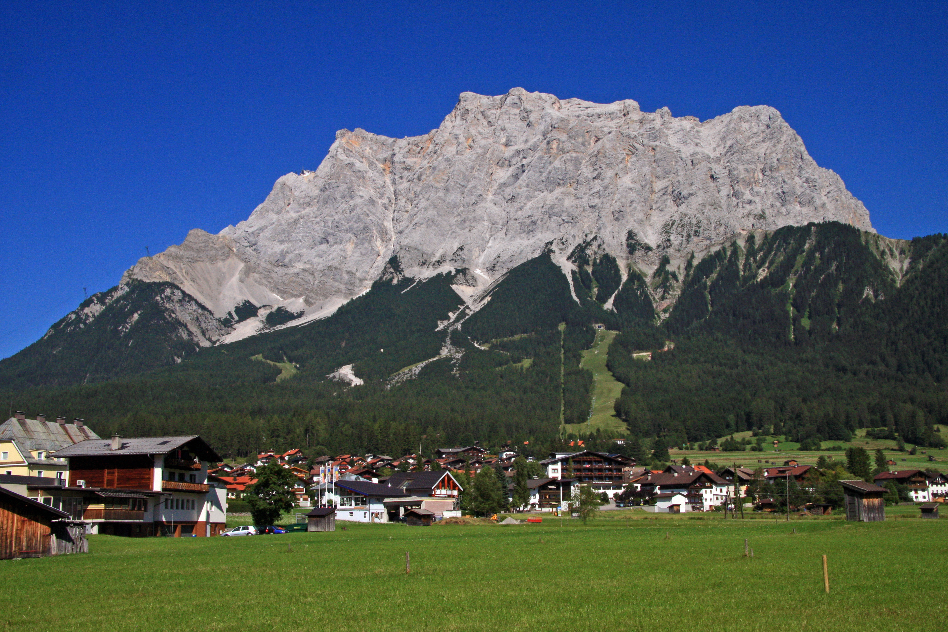 View at the mountain Zugspitze from the Austrian village Ehrwald